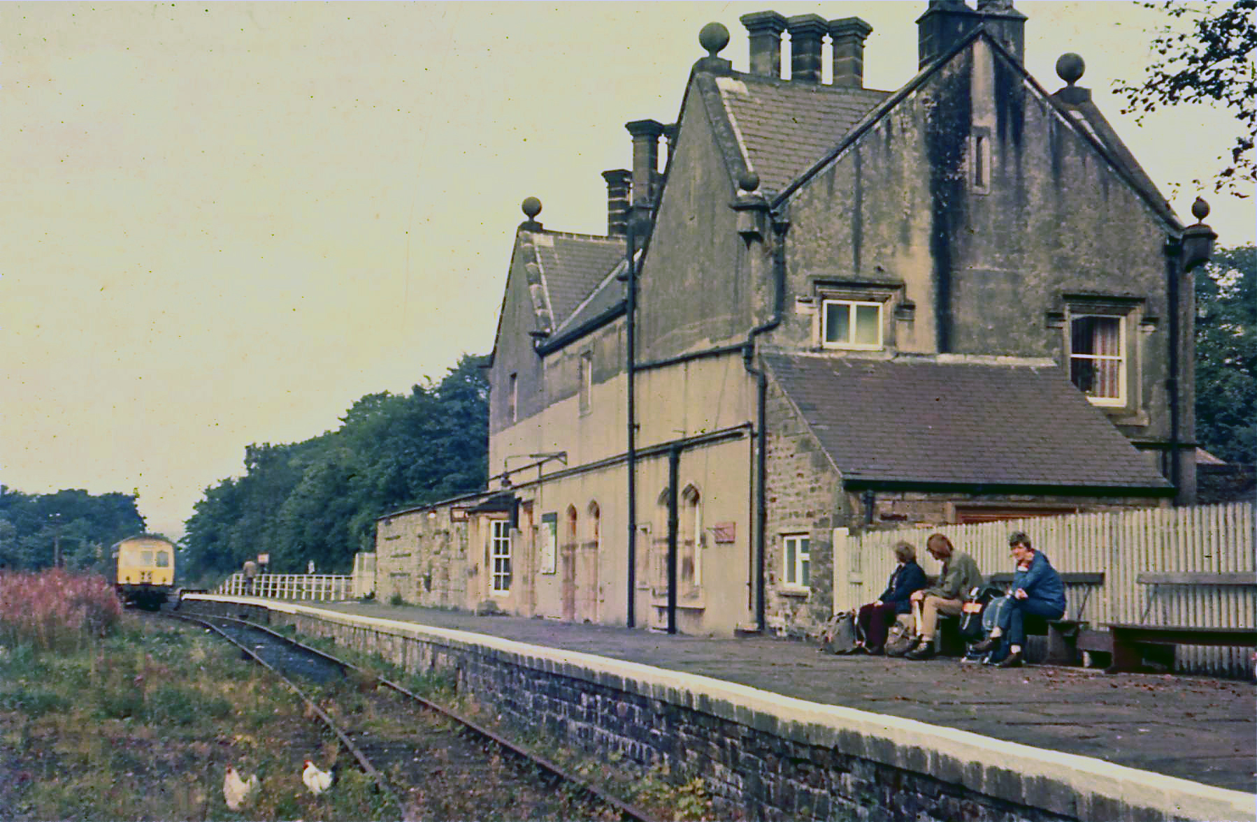 September 1973